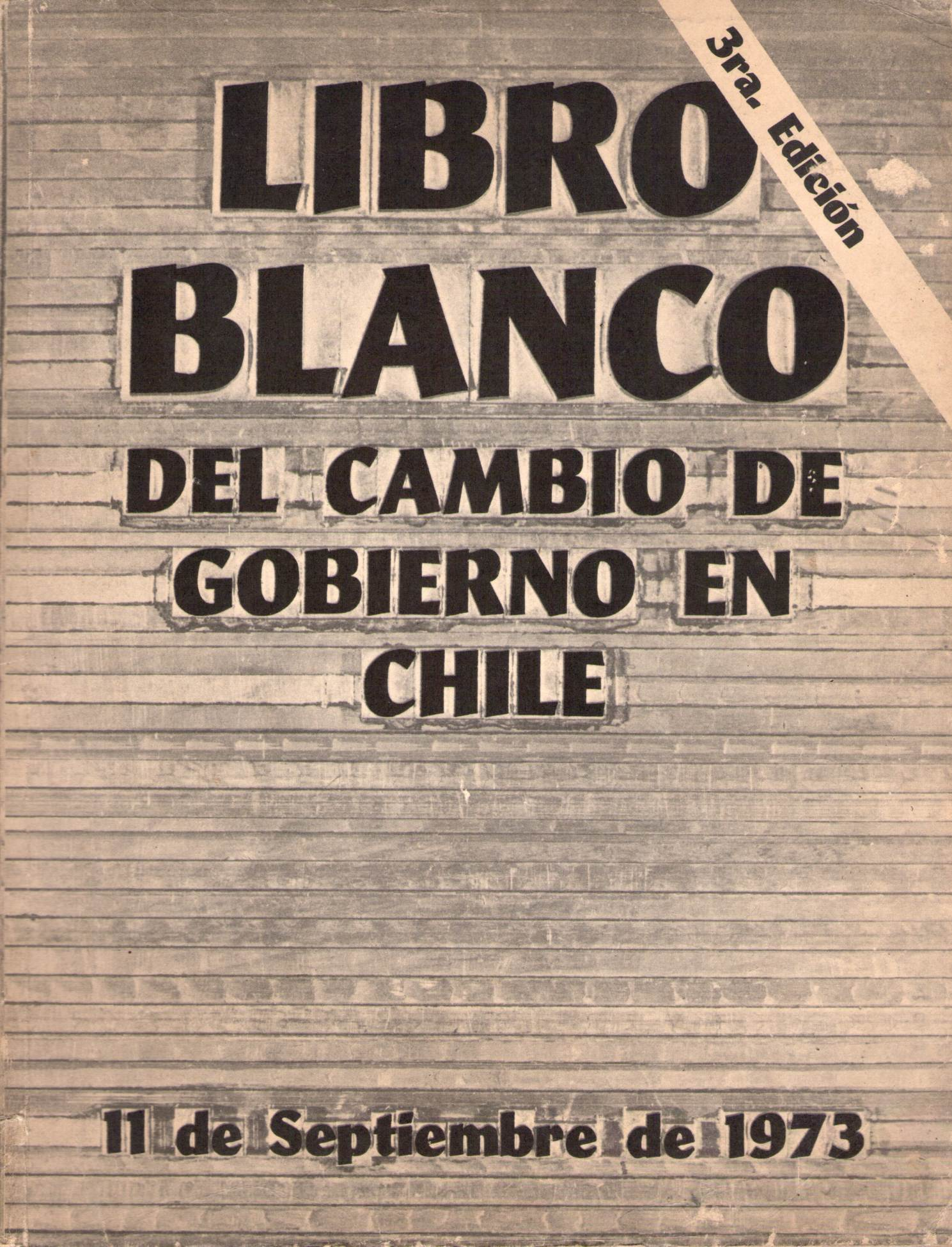 Cover of the third edition of the "White Book of Government Change in Chile".